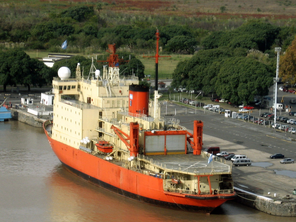 Icebreaker "Admiral Irizar", Argentina's Navy.